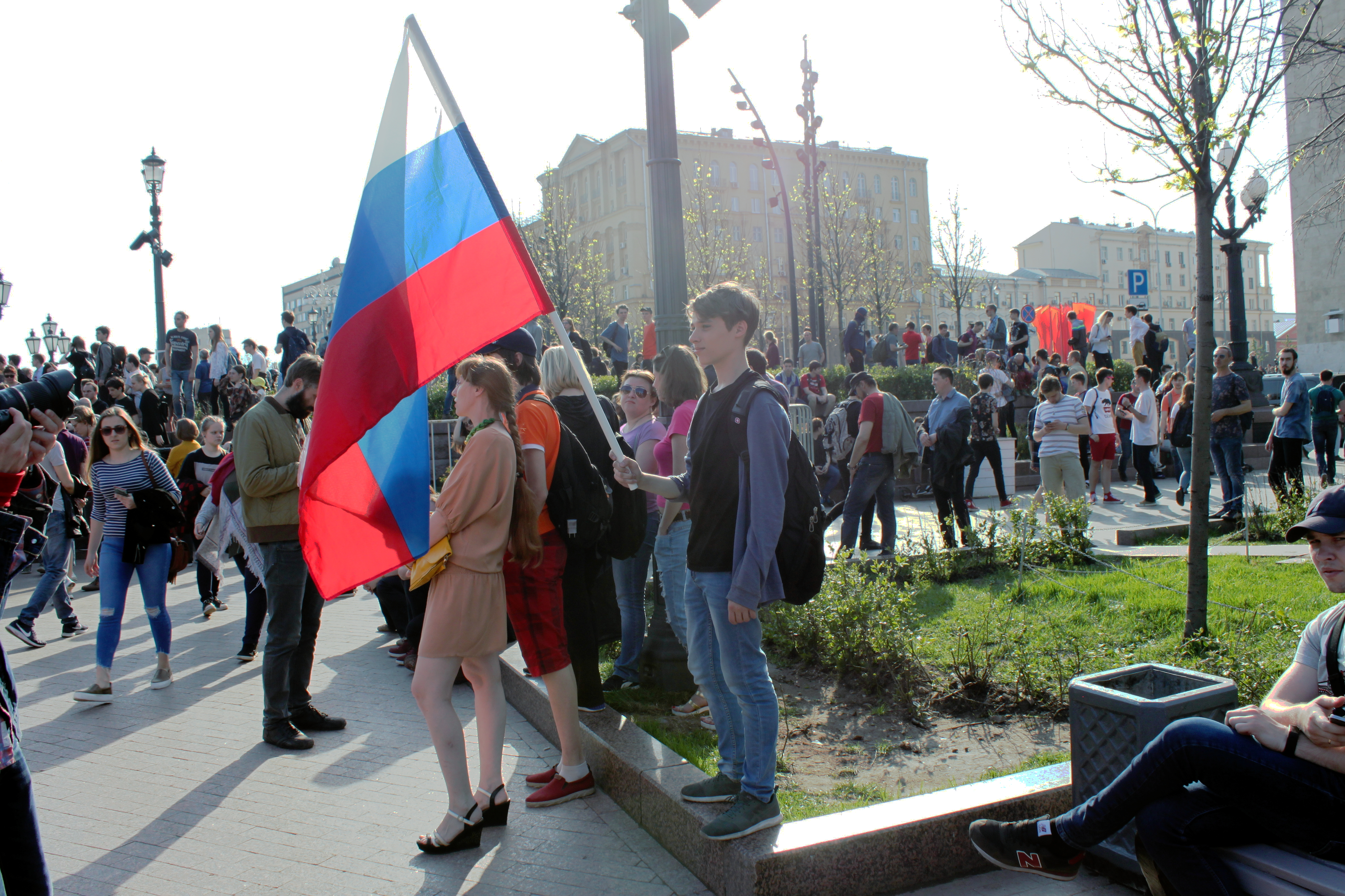 In Moscow, the action «Он нам не царь» was held.